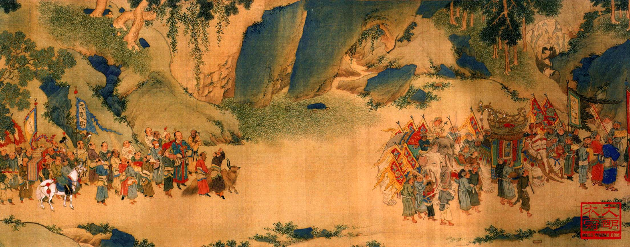 Painting Zhí gòng tú (職貢圖) about Southern Song Dynasty Period by painter Qiu Ying (仇英) in 15th century.